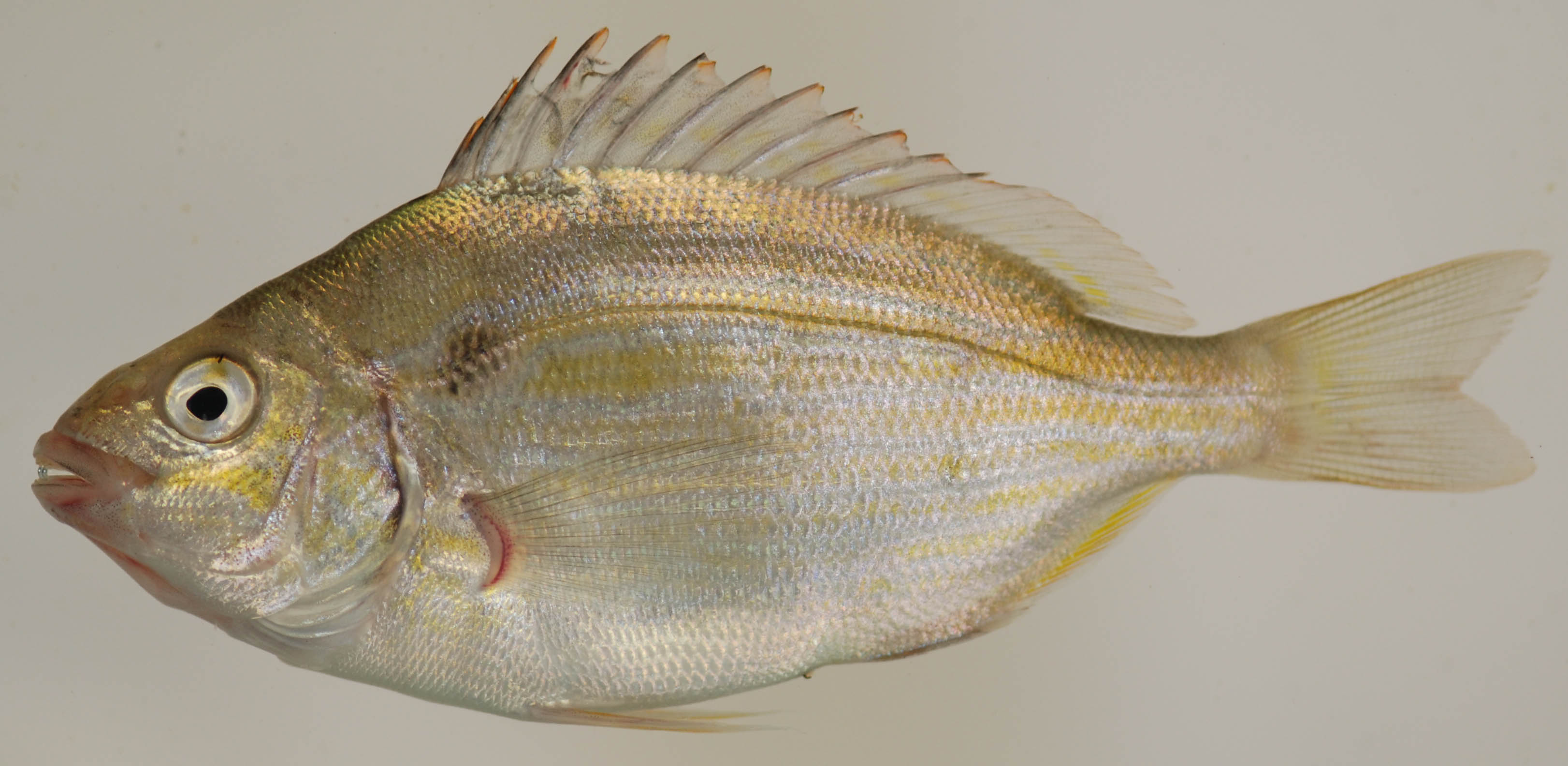 pinfish, Lagodon rhomboides, 70mm SL. Little Annemessex River, Somerset County, MD - 07/13/12. Photo by Robert Aguilar, Smithsonian Environmental Research Center.